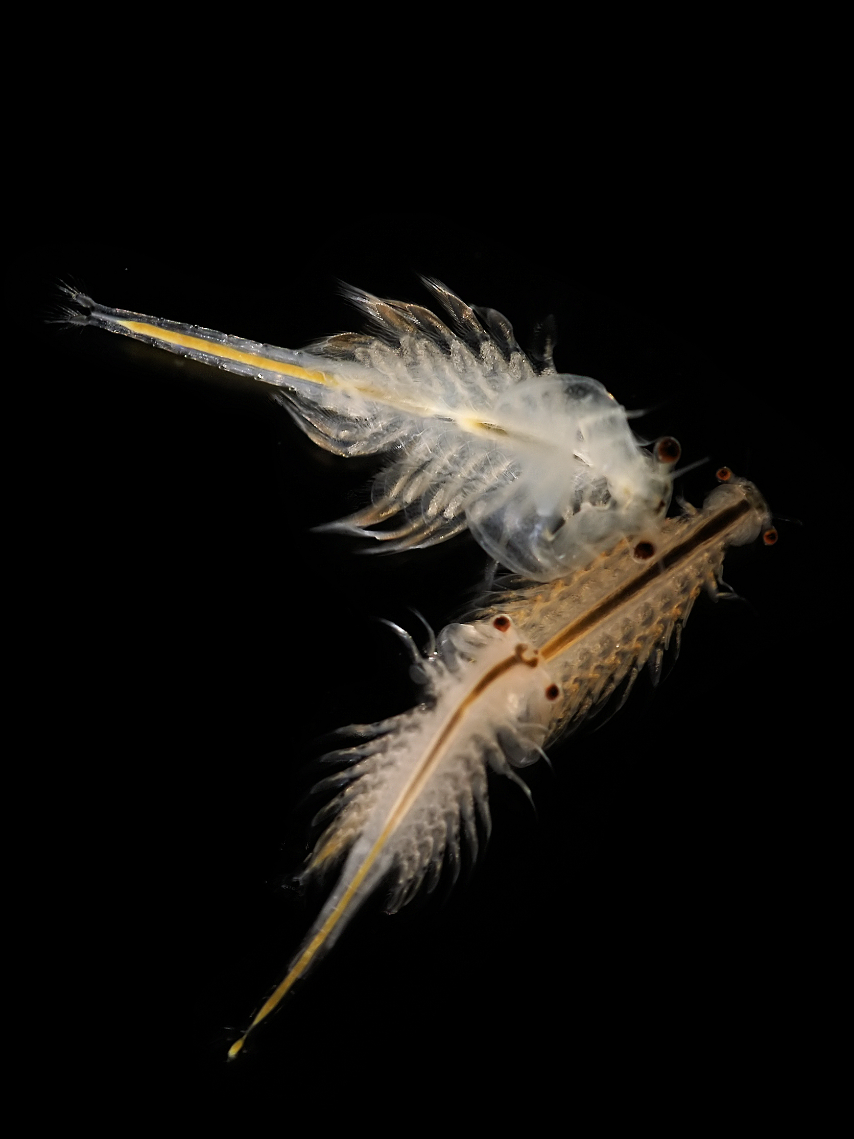 Brine shrimp. Laboratory picture